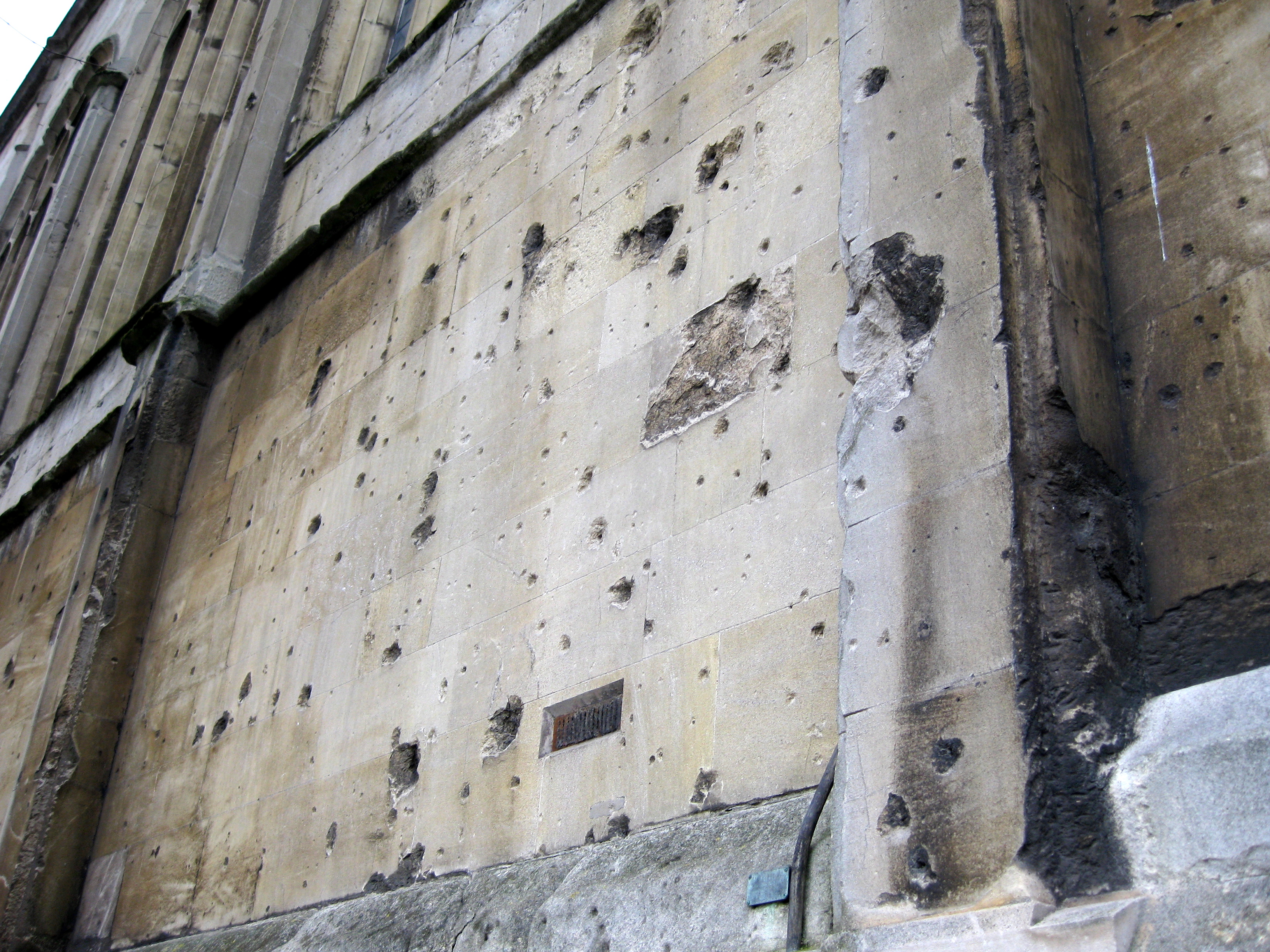 Damaged wall of St Nicholas church